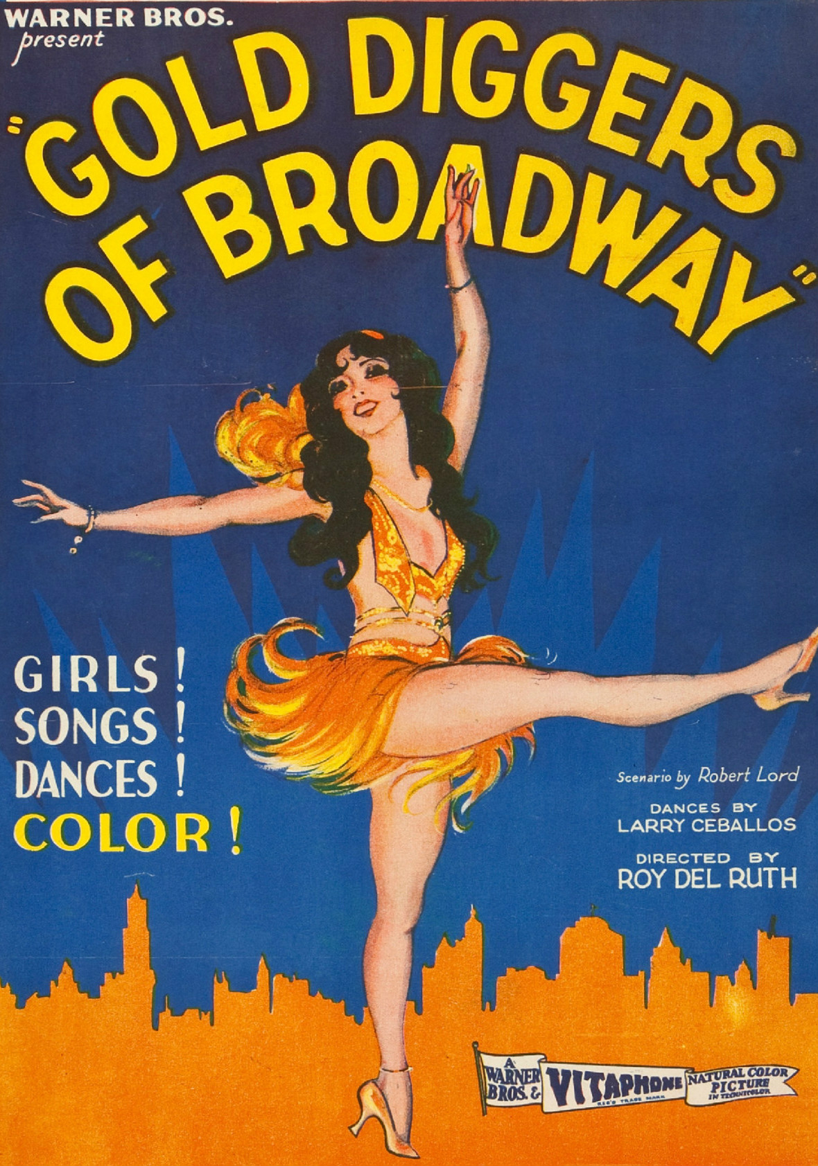 Window poster for the American musical film Gold Diggers of Broadway (1929). There are no copyright marks. At bottom right of uncropped poster is Made in USA.